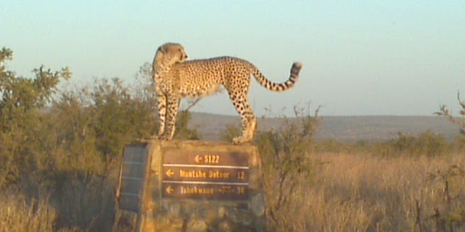 A male cheetah standing on top of a road sign at the intersection of the Mlondozi Loop and Muntshe Loop